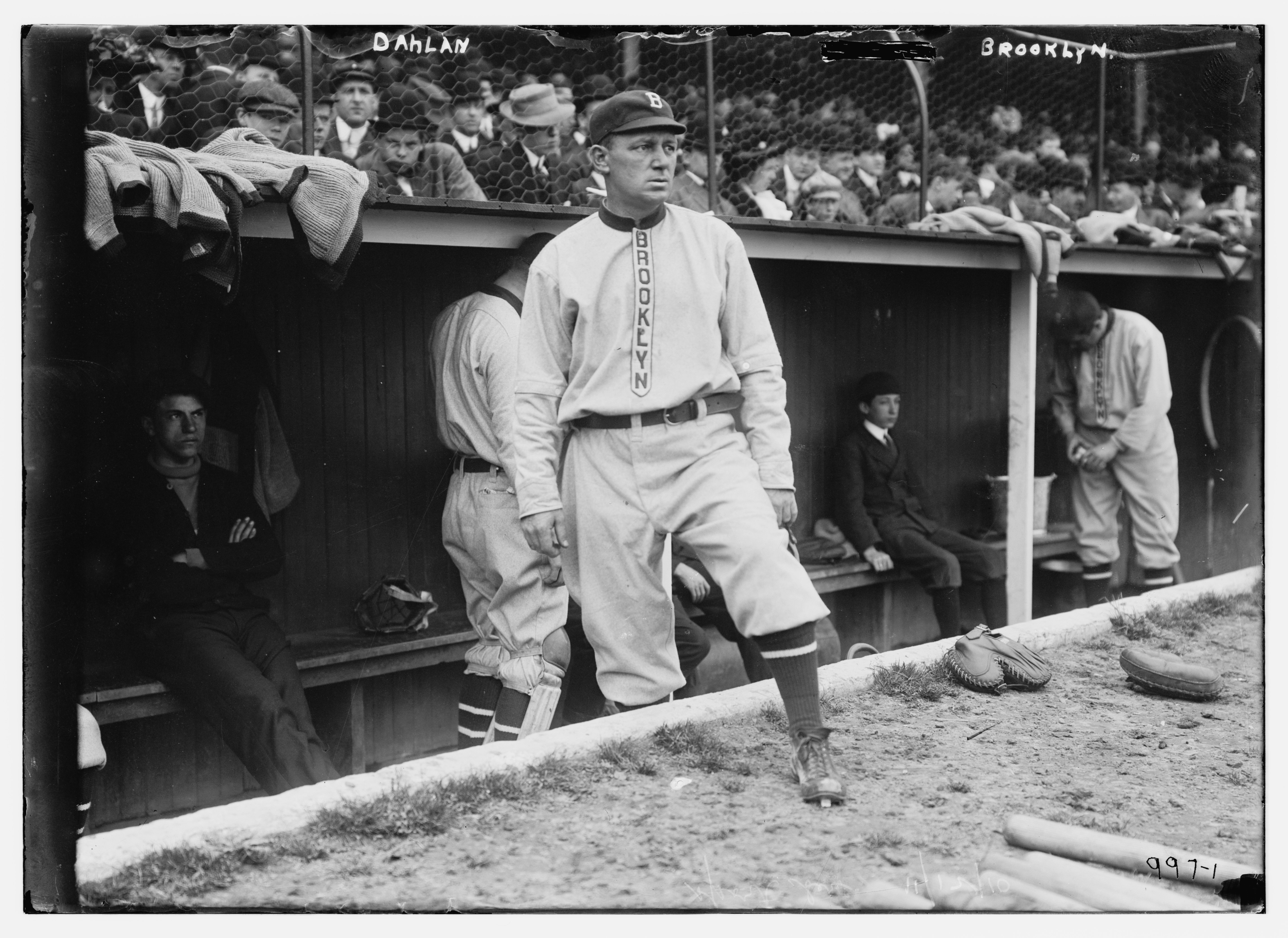 Title: Bill Dahlen, Brooklyn NL (baseball) Abstract/medium: 1 negative : glass ; 5 x 7 in. or smaller.